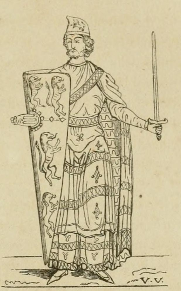 Geoffrey V, Count of Anjou